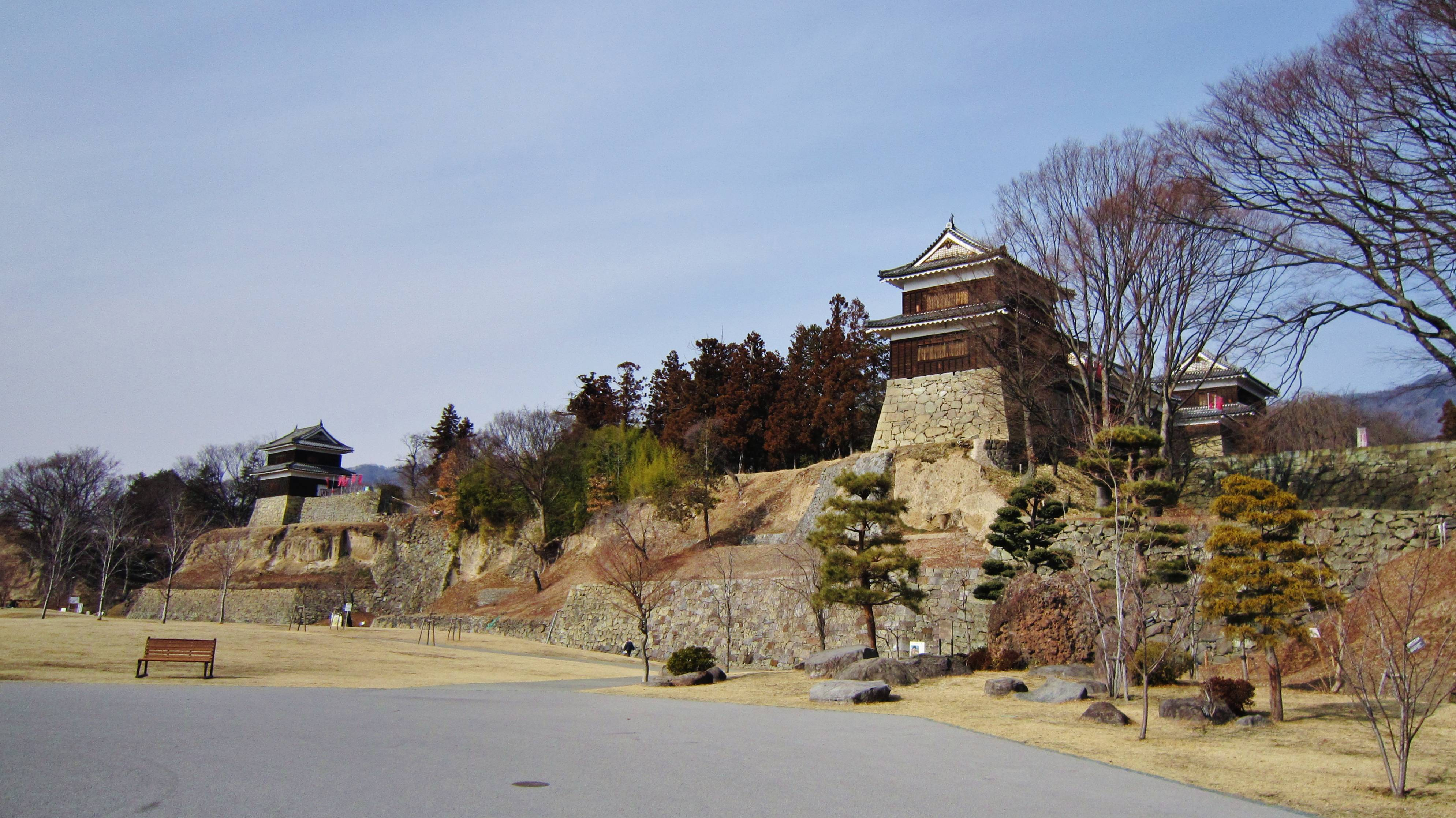 Ueda Castle Amagafuchi.